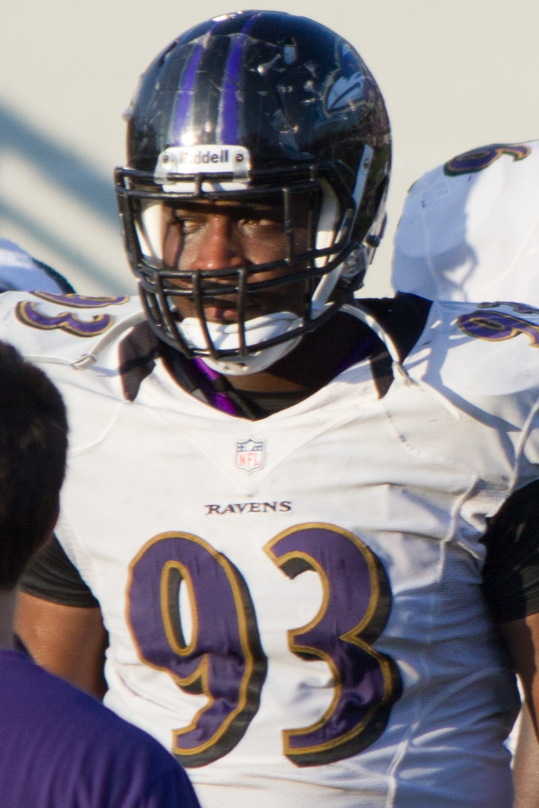 DeAngelo Tyson during Ravens practice at Navy–Marine Corps Memorial Stadium, August 2012.